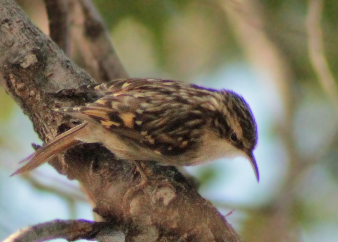 A Short-toed Treecreeper (Certhia brachydactyla) in Madrid (Spain).